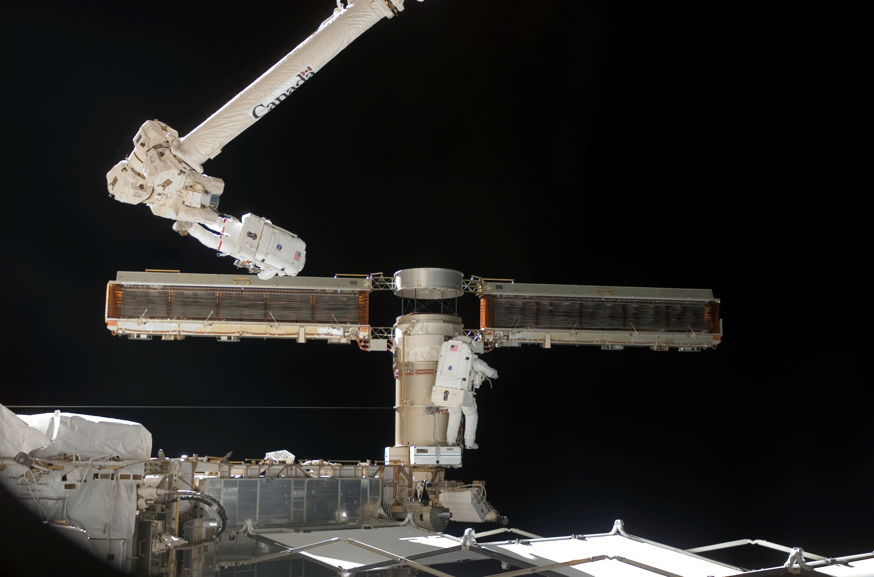 Astronauts Jim Reilly (on robot arm) and Danny Olivas join up forces with their colleagues inside the shuttle and station to complete the delicate process of folding an older solar array as part of the third spacewalk of the STS-117 mission.